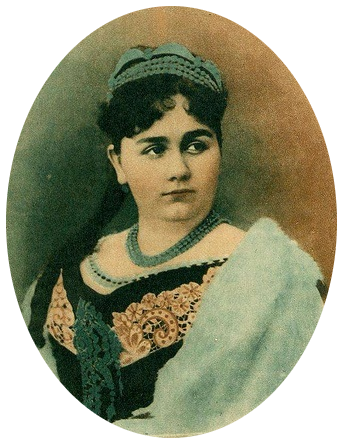 Princess Amina Elhami (1858–1931), the only wife of Khedive Tawfiq Pasha of Egypt.